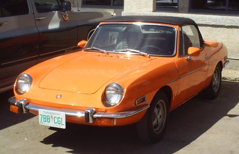 Fiat 850